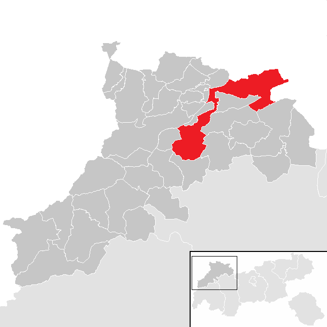 District Reutte